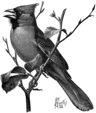 Illustration of a cardinal, by Louis Agassiz Fuertes, 1896. Scanned from Citizen Bird, 1907 printing. Small version.